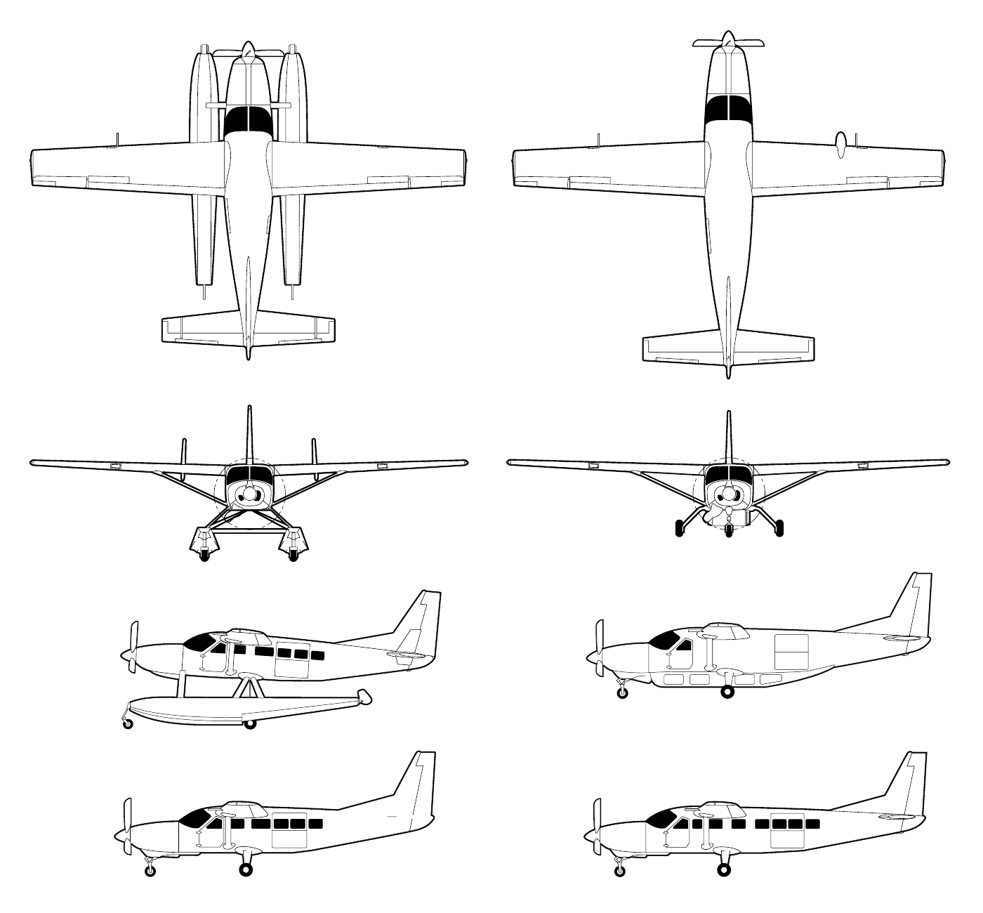 Cessna 208 Caravan three views, based on manufacturer brochure : left : 208 caravan and amphibian, right : super cargomaster and 208B grand caravan